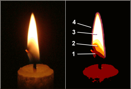 Candle and schematic diagrams of its burning zones